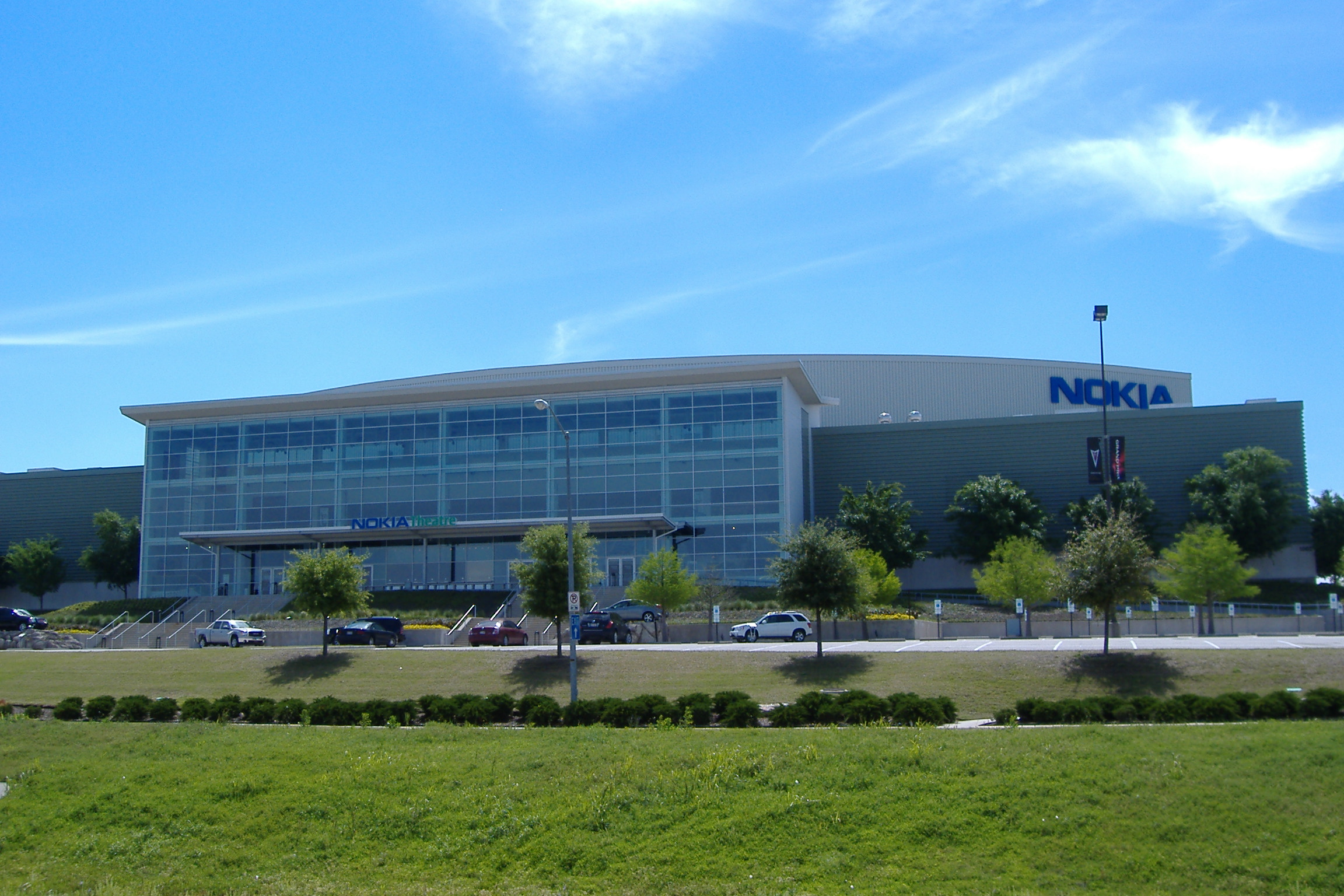 The Nokia Theatre in Grand Prairie, Texas.